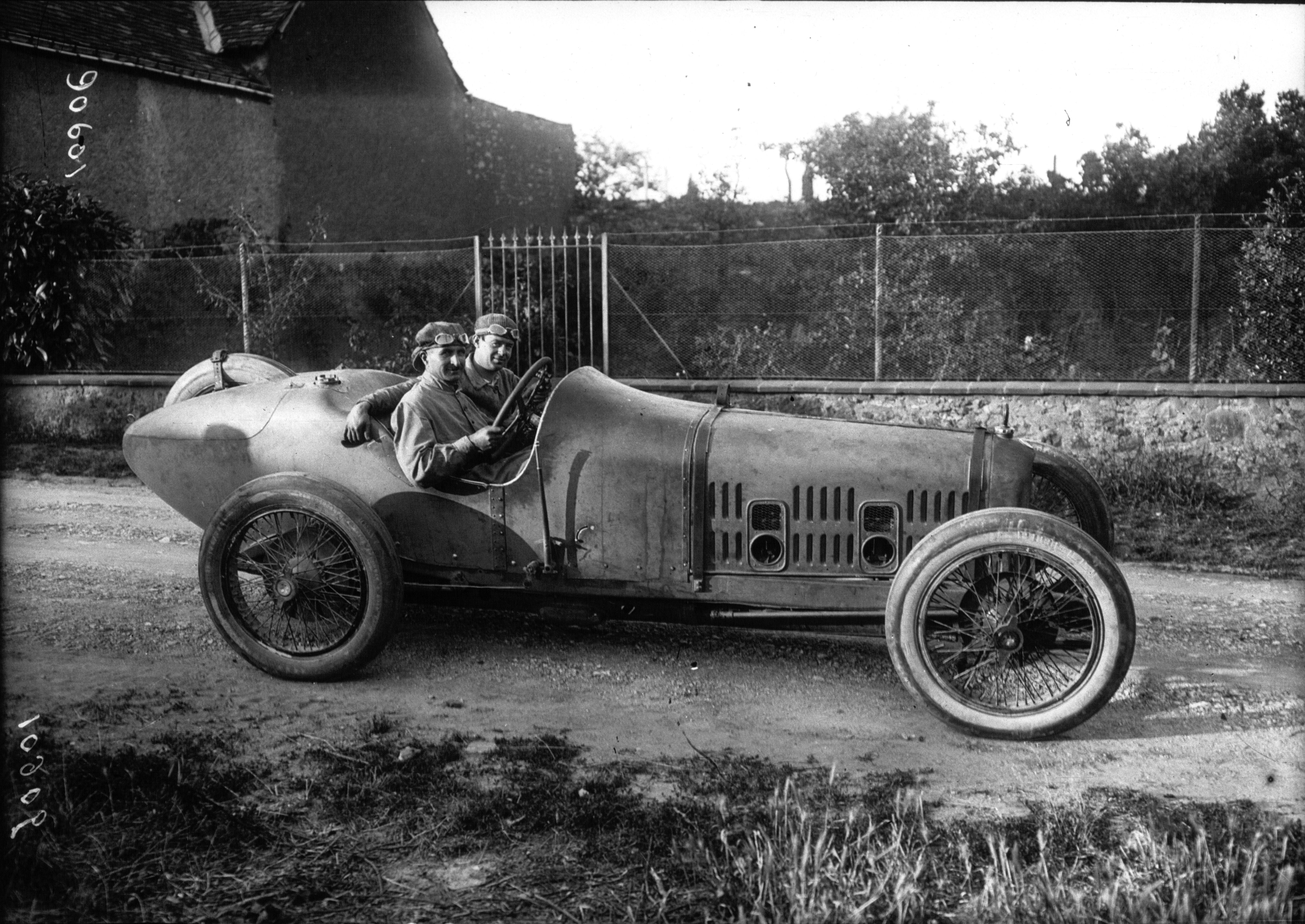 Jean Chassagne on Ballot 3L before at the 1921 French Grand Prix; retired during lap 17 due to fuel tank problem